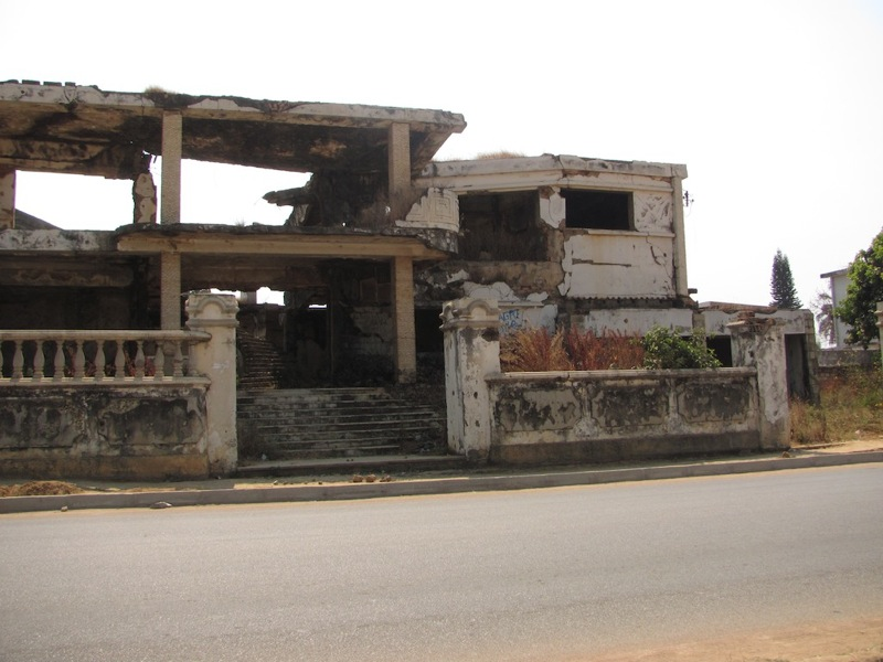 Ruined house of Jonas Malheiro Savimbi (August 3, 1934 – February 22, 2002) in Huambo, Angola, destroyed in 2002